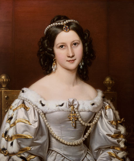 Painted in 1828 in her costume of Wallenstein's daughter "Thekla" in Schiller´s "Wallenstein". Part of serie Gallery of Beauties